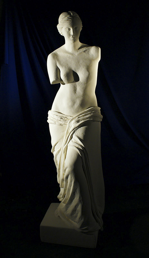 Lavastaraketaja-artesaanin tekemä veistos